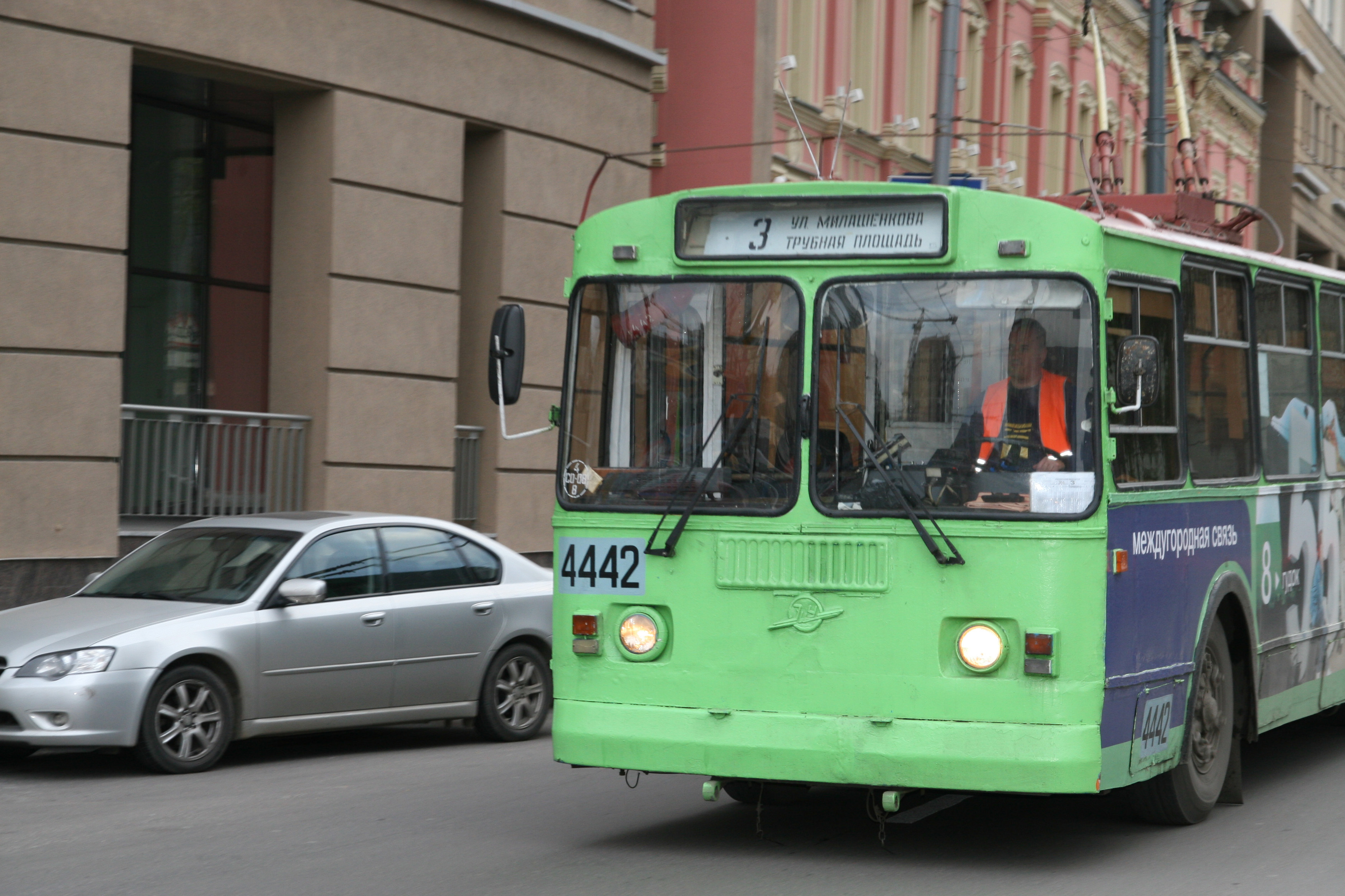 Moscow Malaya Dmitrovka Street Trolleybus № 3